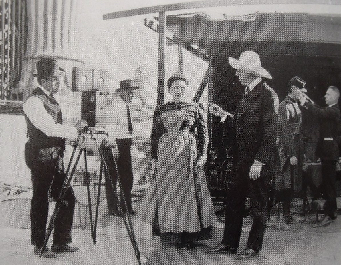 L. to R. : Billy Bitzer, unknown, Josephine Crowell, D. W. Griffith, unknown, and Erich von Stroheim on the set of Intolerance - publicity still (cropped : see source)